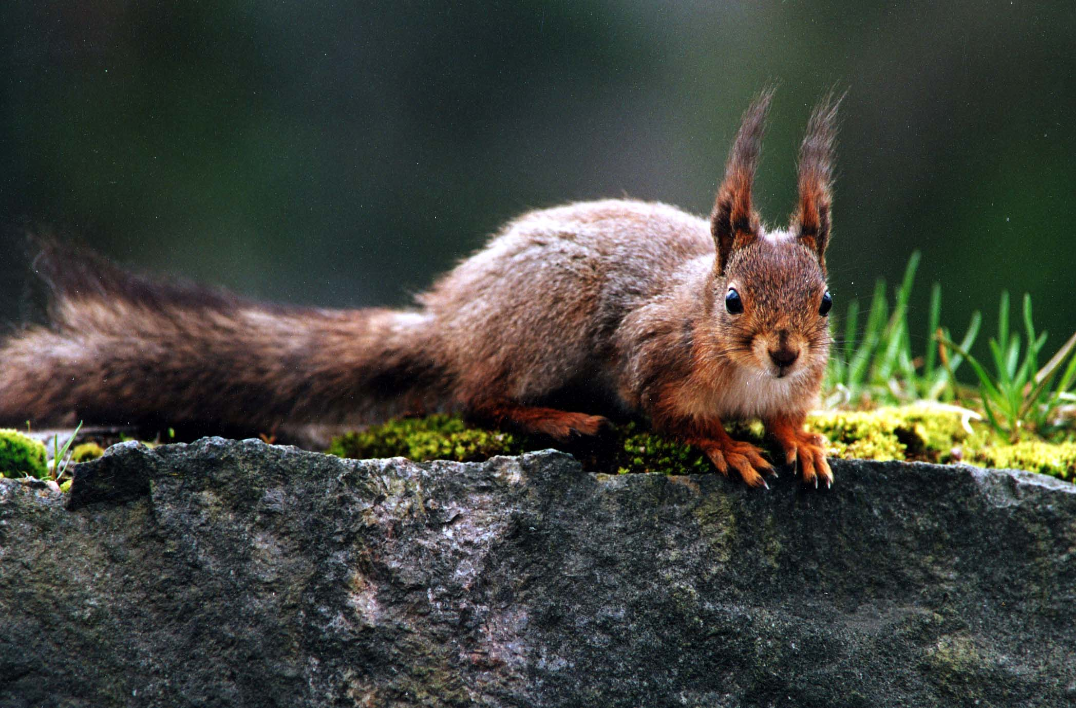 A curious european squirrel (Sciurus vulgaris)